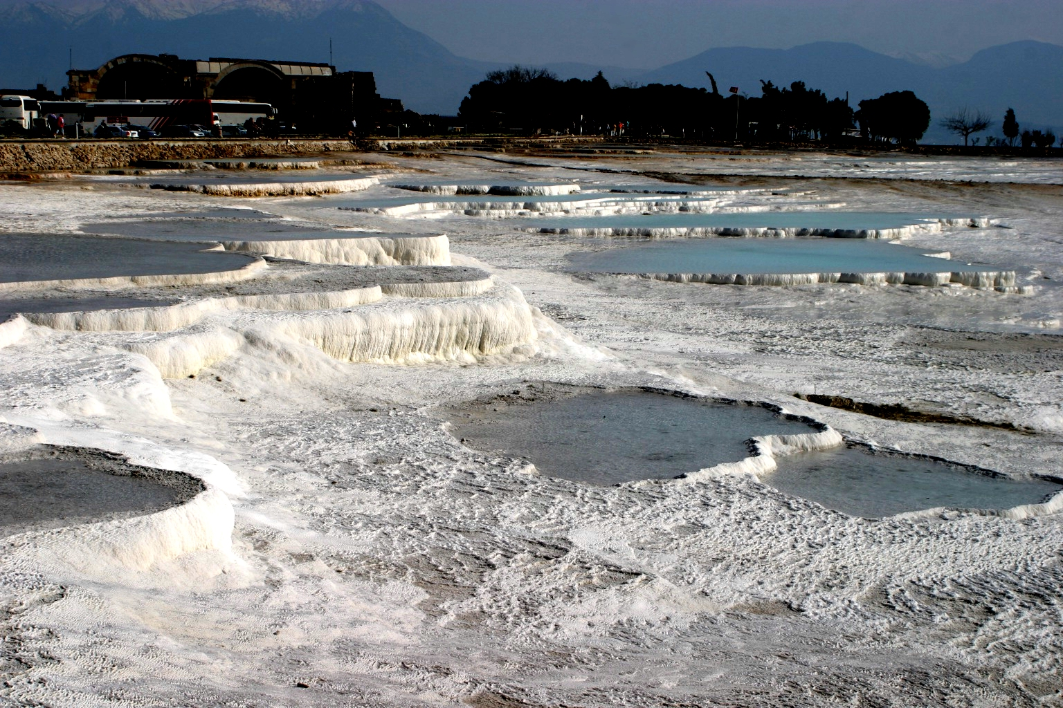 Hot springs of Pamukkale Photograped by Brocken Inaglory in April of 2006.